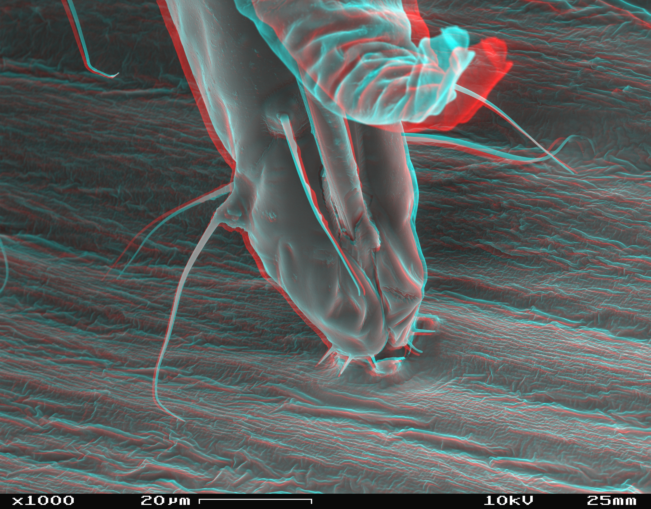 Anaglyph SEM image of Aphis fabae, magnification 1000x